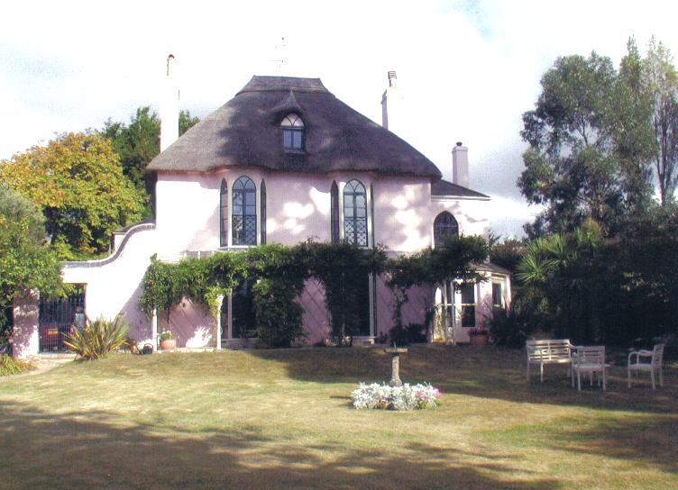 A view from the front lawn showing the new buttress supporting the cob where water penetration had damaged it.